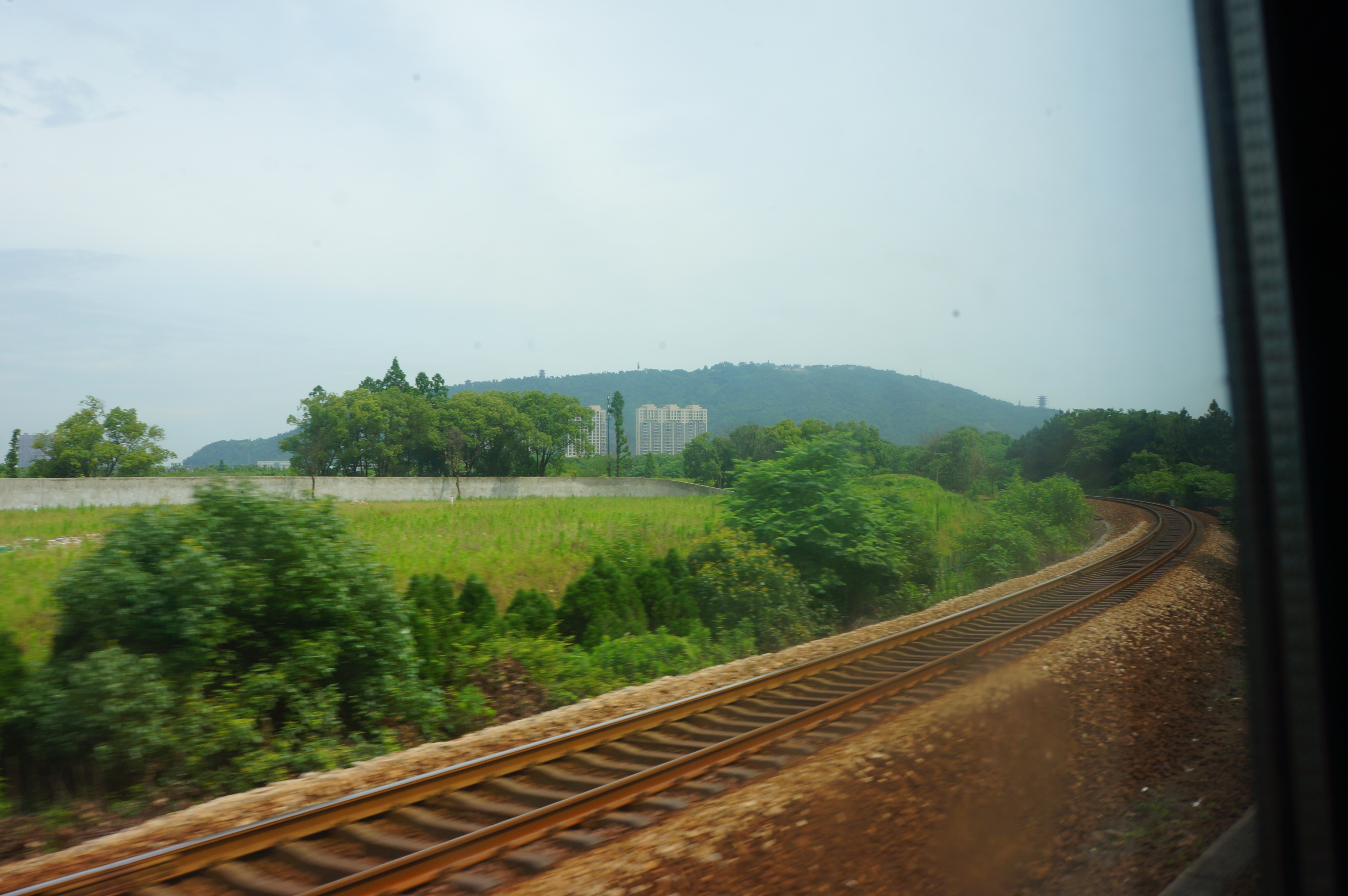 201606 Internal shunting line at Qiaosi Station